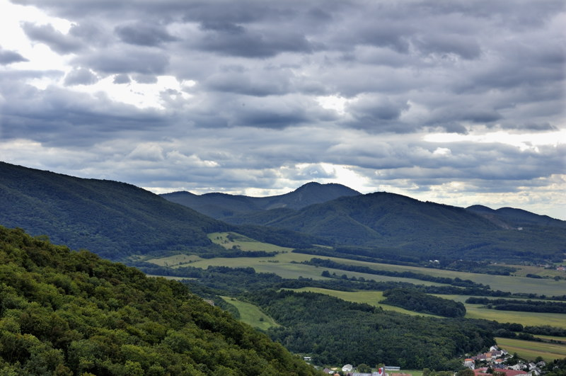 Mount Vysoká (754,3 m) from Plavecký hrad